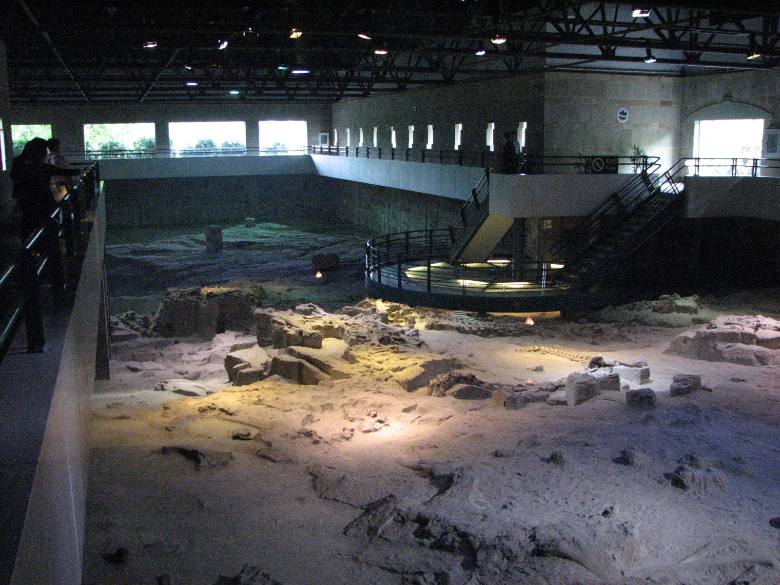 Excavation pit. Zigong Dinosaur Museum. I took this photo in September, 2006 (Art Yang, 2006) Citation Required.